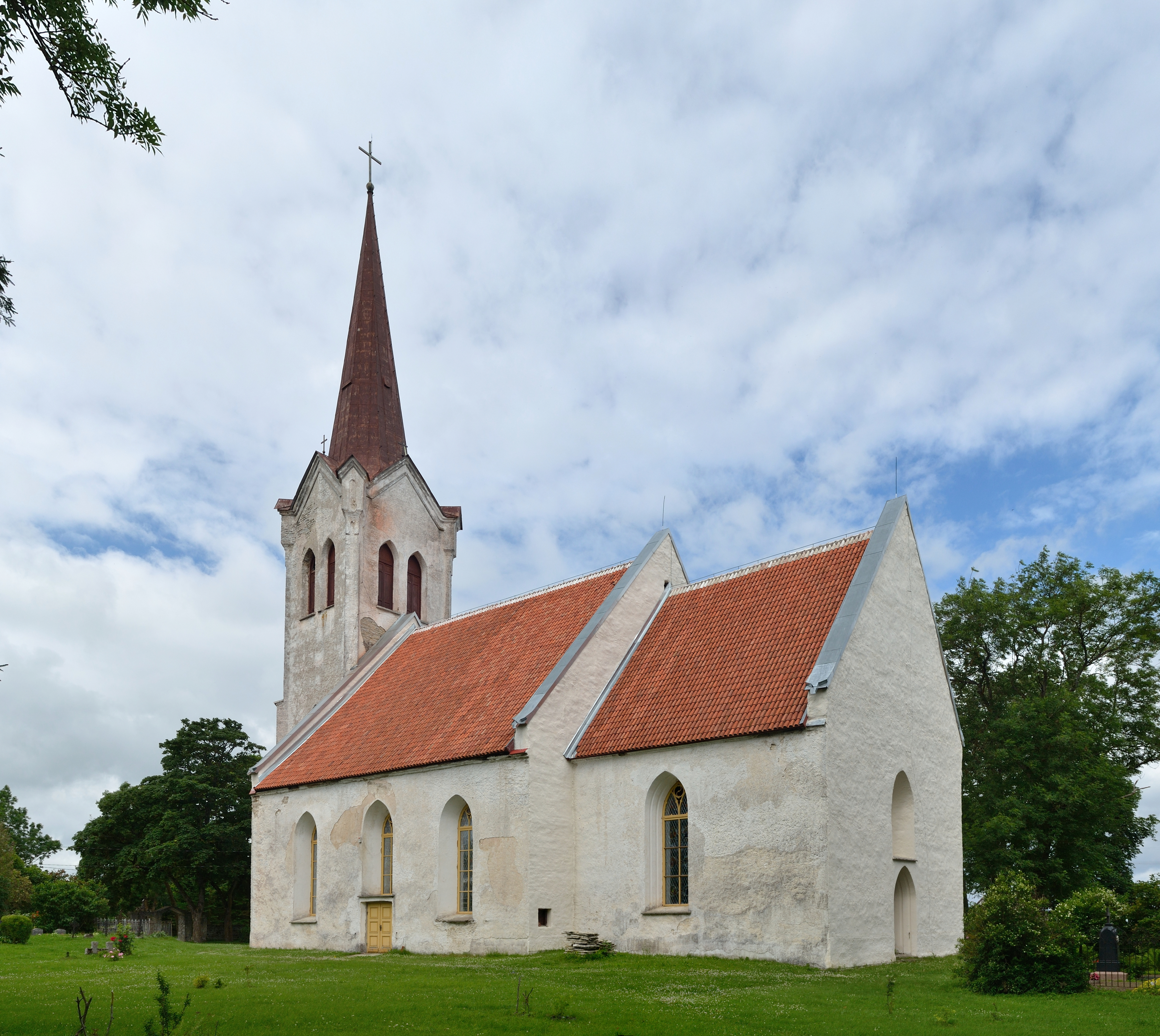 Jõelähtme church